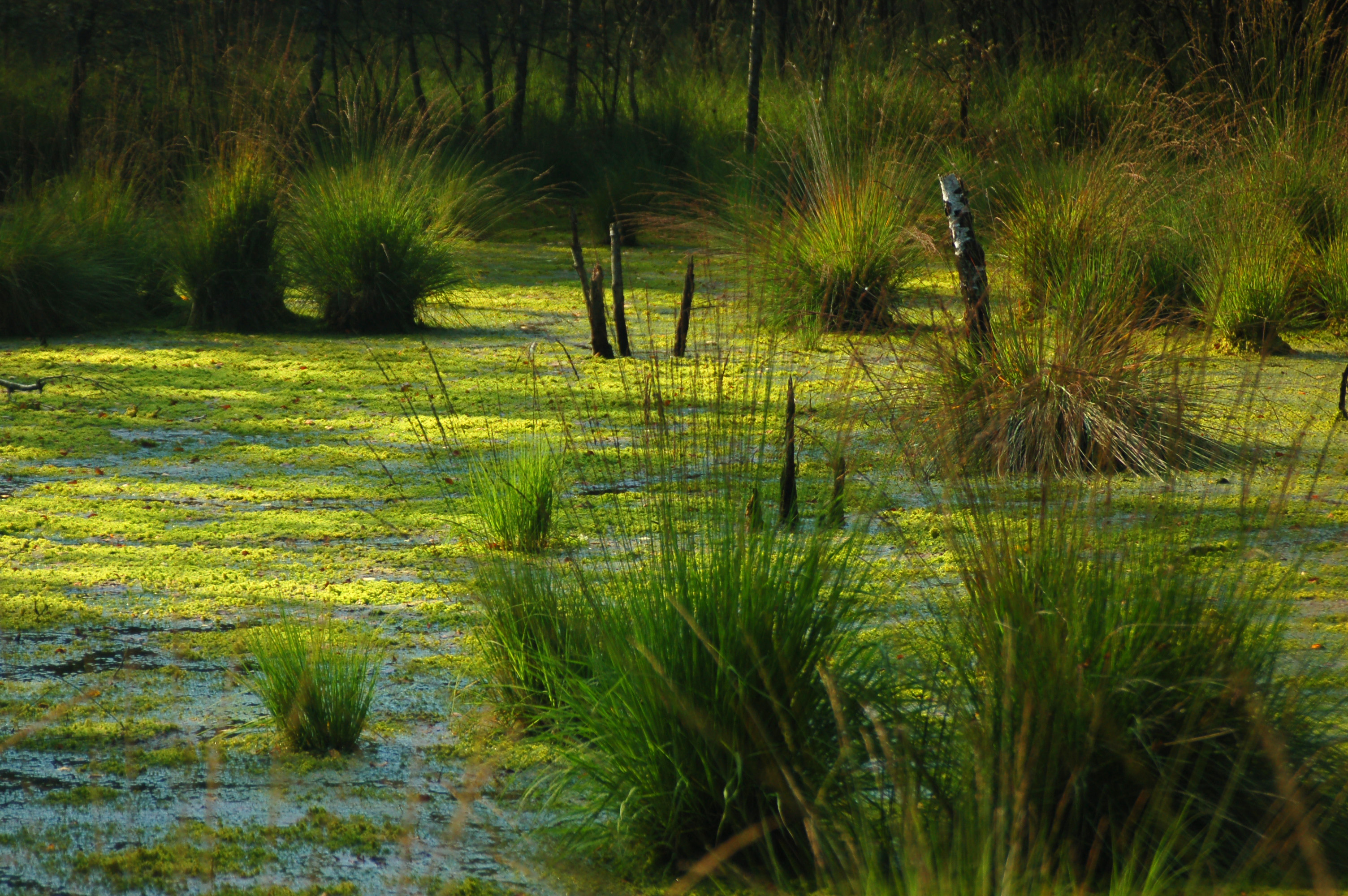 Lütt-Witt Moor, Henstedt-Ulzburg, Germany.